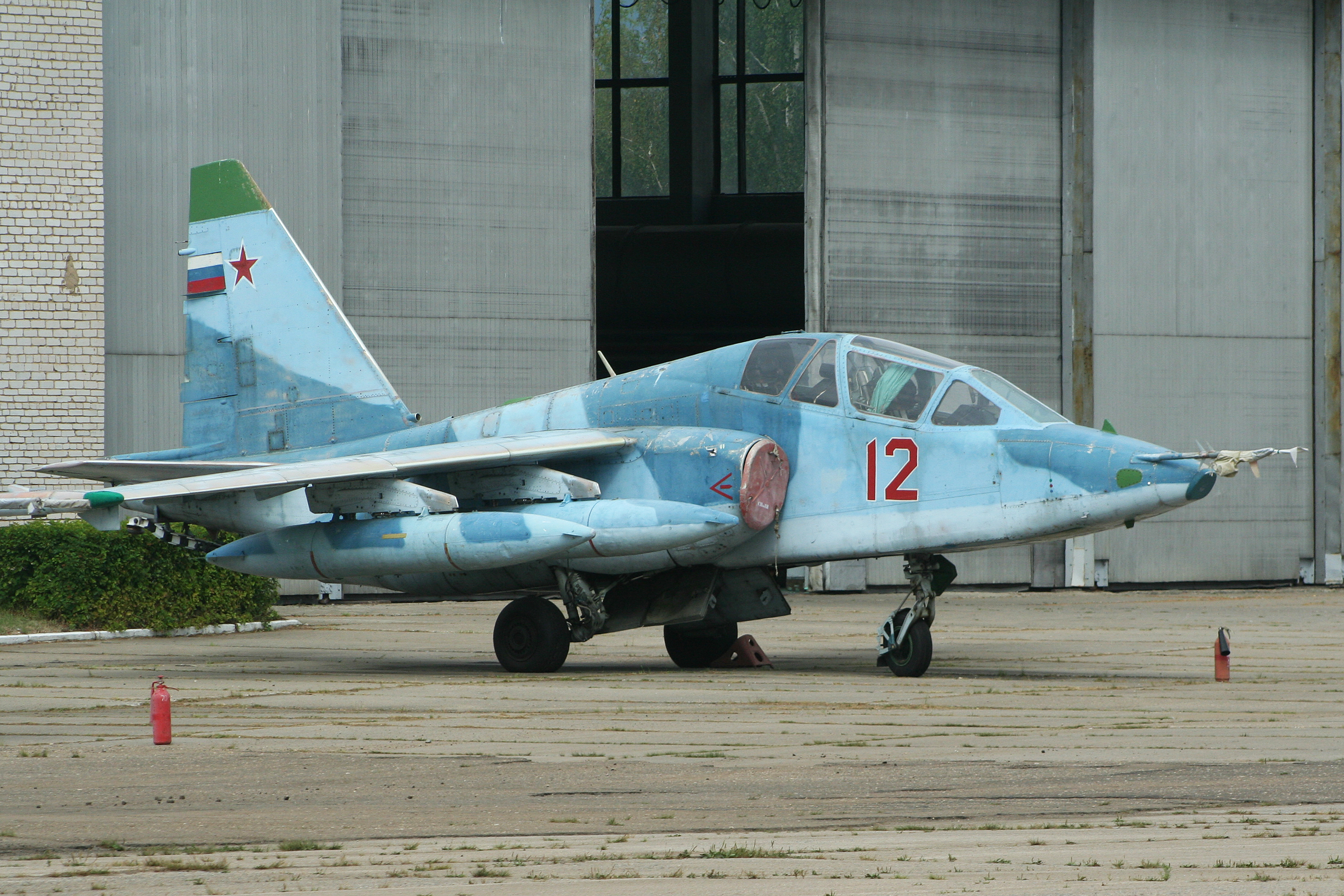 A rare Naval training variant of the Su-25 for deck landing training. It could actually be a UBP if it was originally built as an Air Force UB and converted later. Parked outside the 121st Aircraft Repair Plant at Kubinka, Russia. 11-8-2012